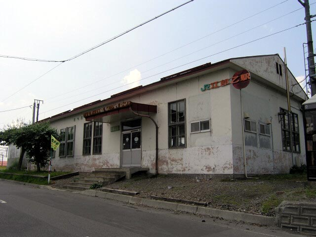 Ebeotsu Station in Hakodate Line, Japan